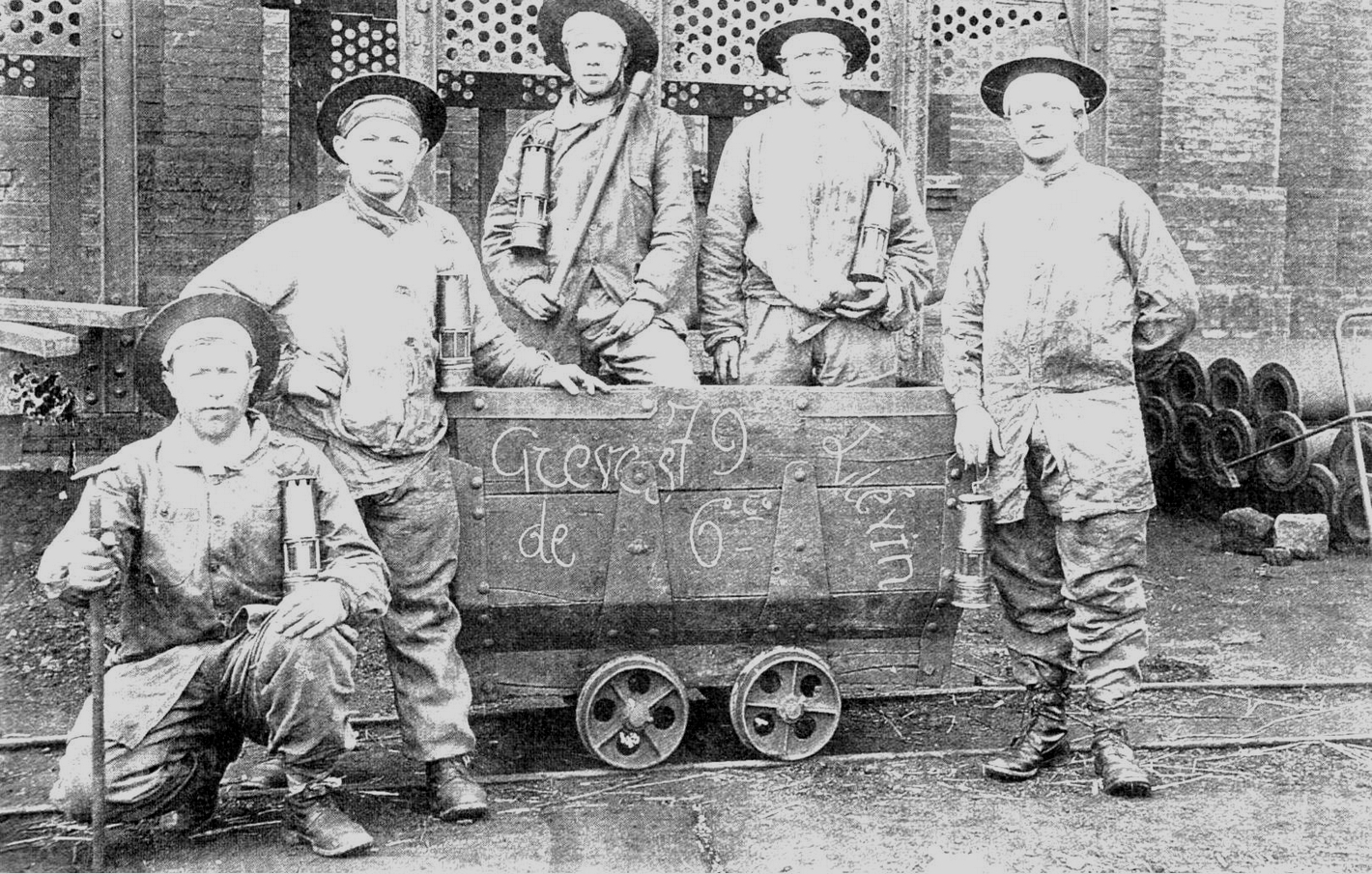 Courrières mine disaster, the tenth march 1906, in the towns of Billy-Montigny, Sallaumines, Méricourt and Noyelles-sous-Lens.